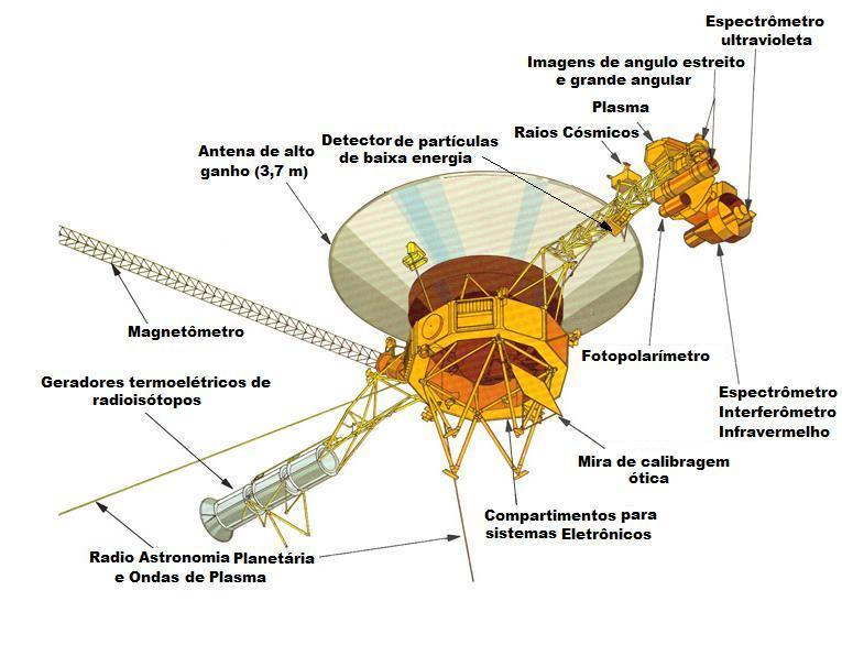 Voyager Instruments